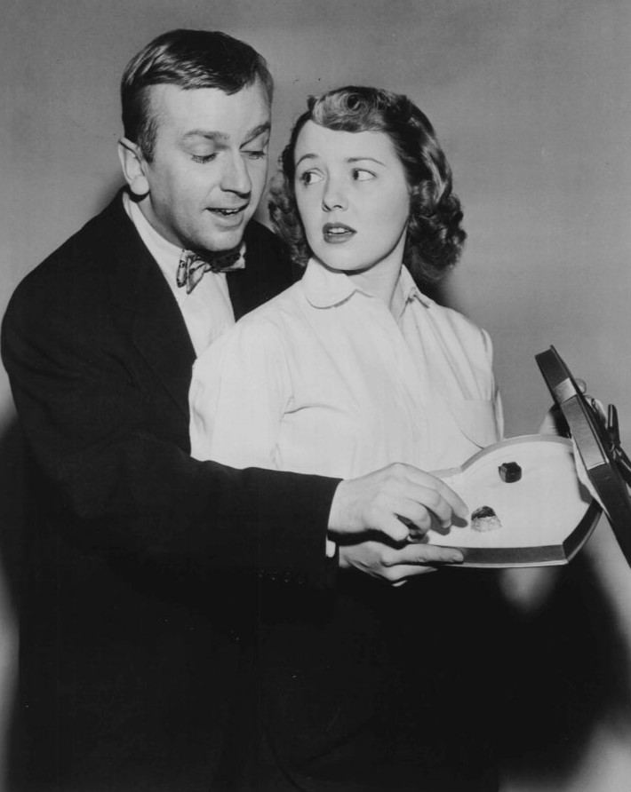 Photo of Jackie Kelk as Homer Brown and Mary Malone as Mary Aldrich from the television version of The Aldrich Family.